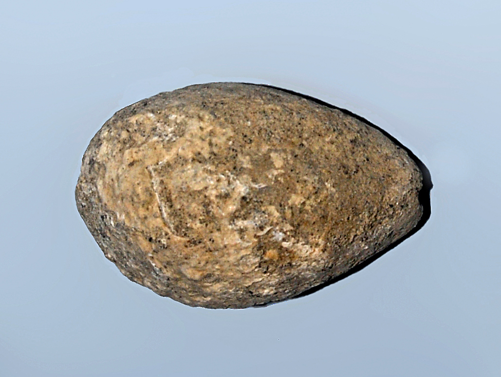 Fossil shell of Zonaria subexcisa, on display at the Museo Paleontologico Giulio Maini, Ovada